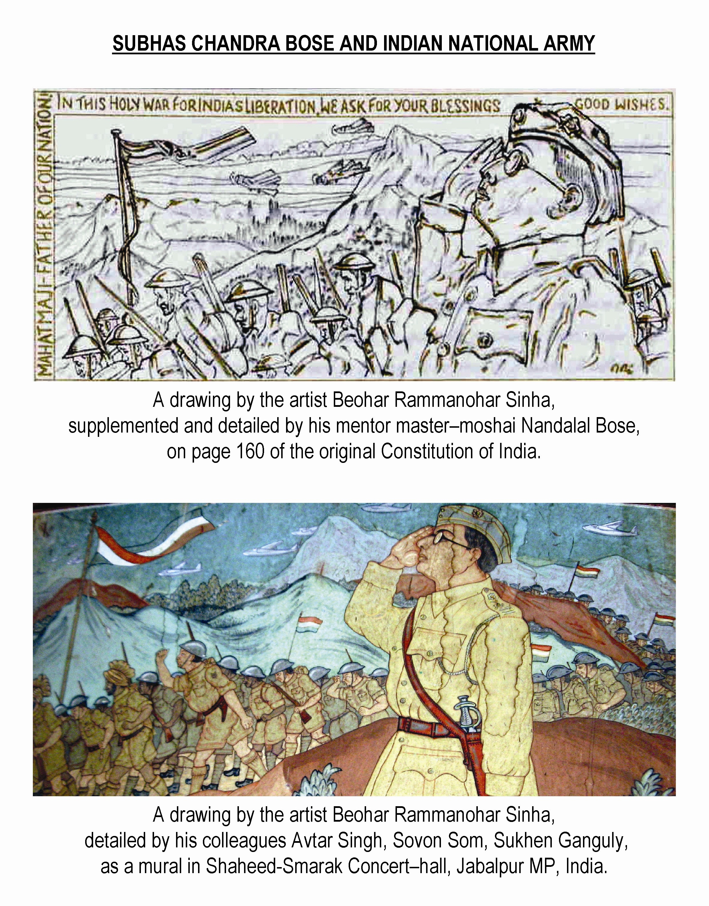 Drawing titled Subhas Chandra Bose leading the Azad Hind Fauj (Indian National Army) by famous Jabalpur-born artist Beohar Rammanohar Sinha from Santiniketan. Mentored by the revivalist modernist Indian maestro Nandalal Bose, Rammanohar illuminated the original calligraphic manuscript of Constitution of India (an illustration pictured here), played an important role in India’s cultural diplomacy with the Far East, painted a multitude of murals in Fresco-secco (an illustration pictured here) and exhibited his paintings worldwide.